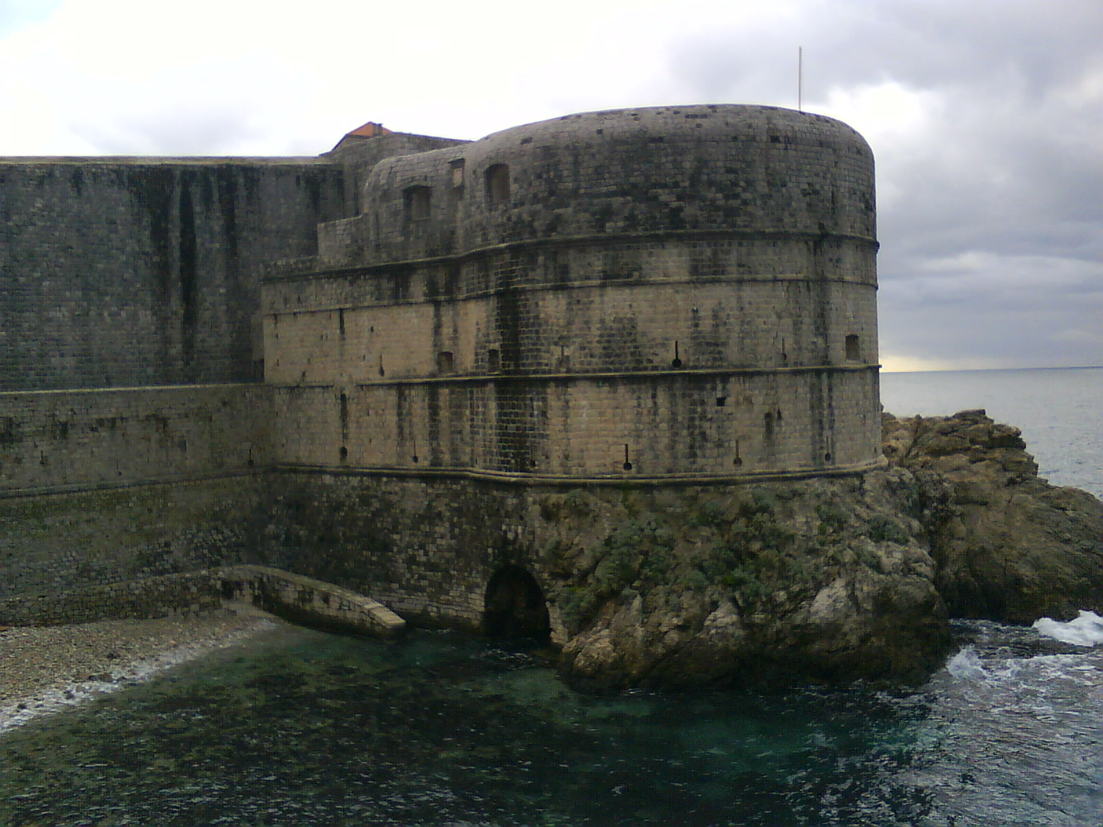 Dubrovnik city walls from Pile